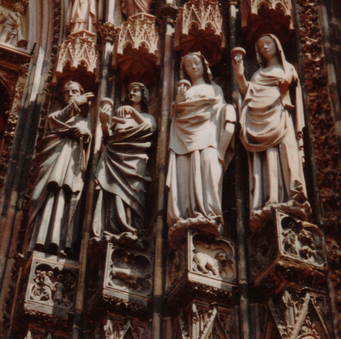 The wise virgins and Christ stand on the right side of the right door to Strasbourg Cathedral